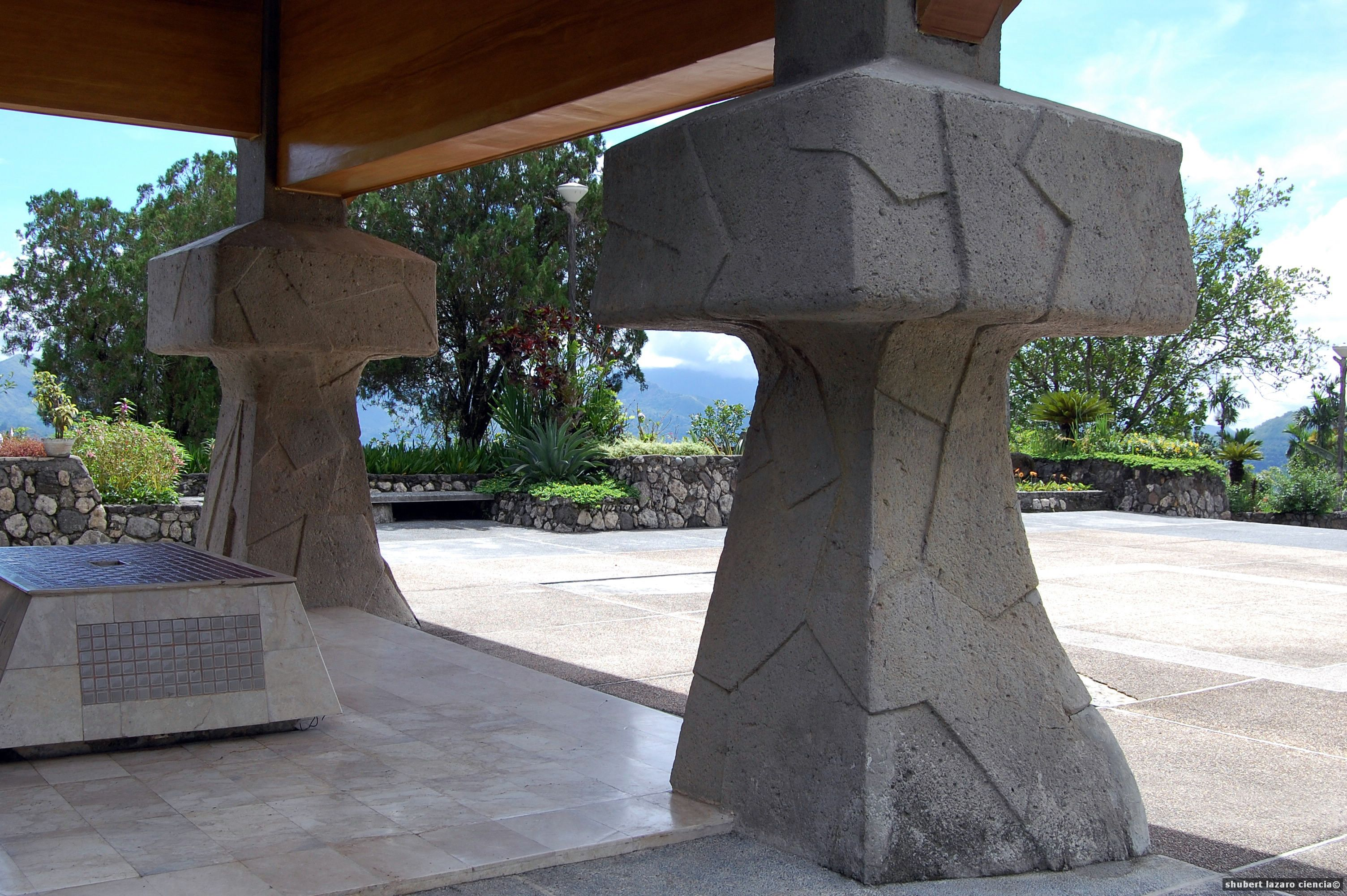 The war memorial was designed after a traditional Ifugao house and was built in 1974 to commemorate the end of World War II in the Philippines. Nikon D40 (SWP-Kiangan LGU Consultative Meeting, May 2007).